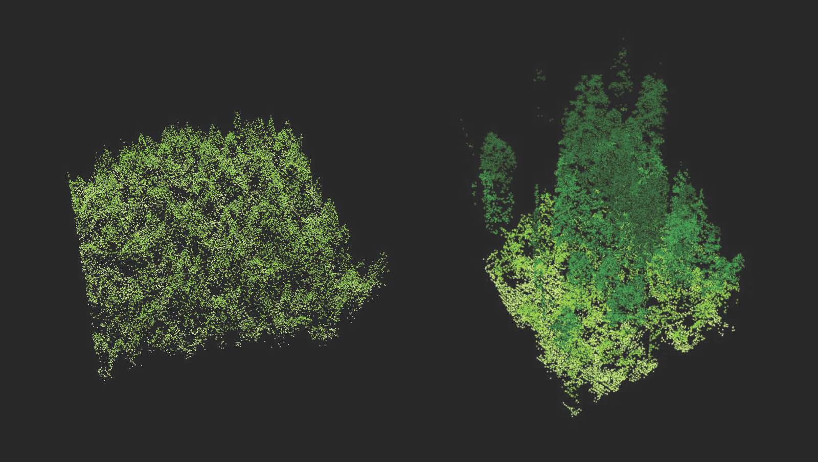 Using LIDAR to compare old-growth forest (right) to a new plantation of trees (left).